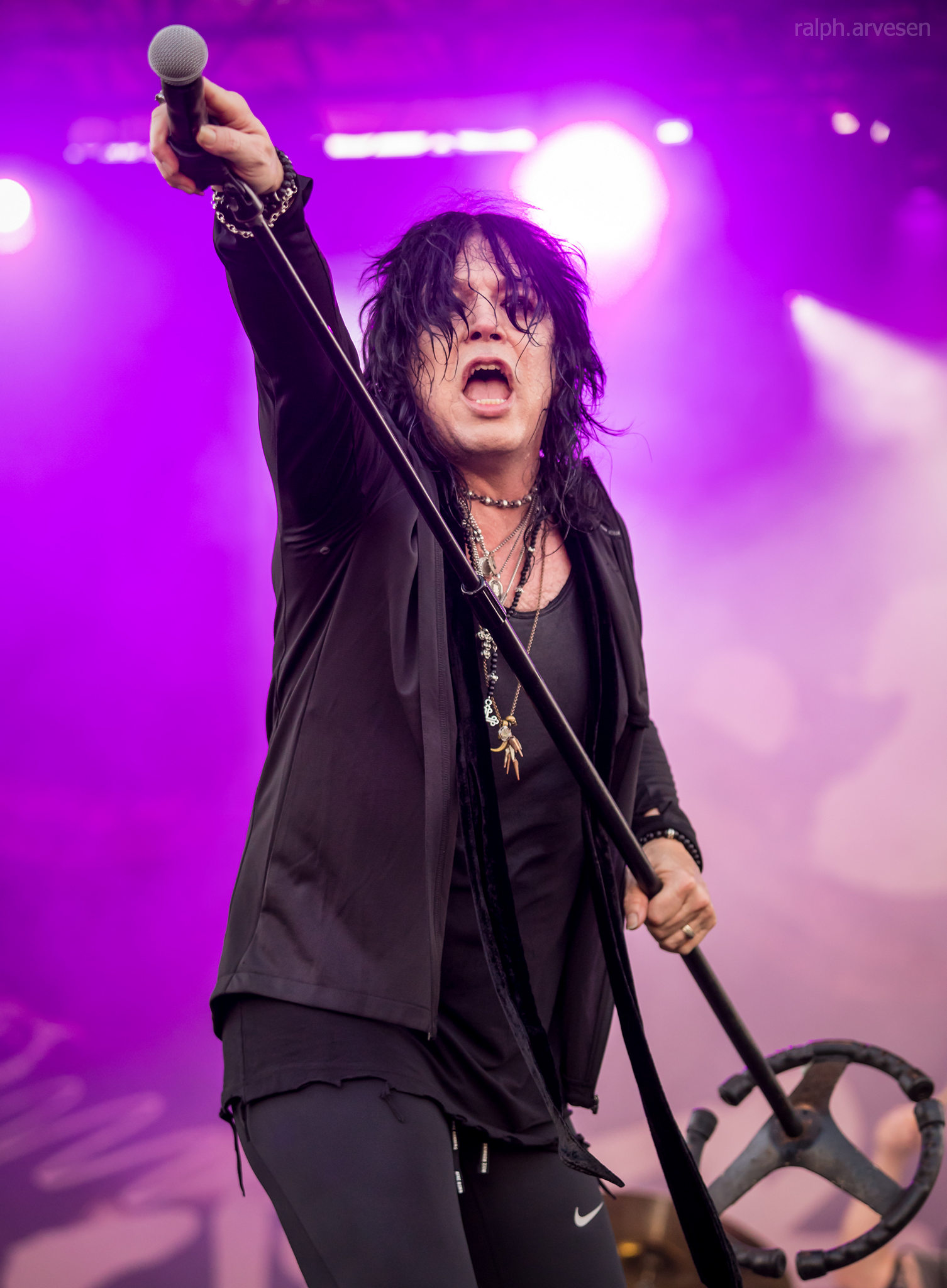 Tom Keifer performing at the Fiesta Oyster Bake at St. Mary's University in San Antonio, Texas on April 21, 2018.